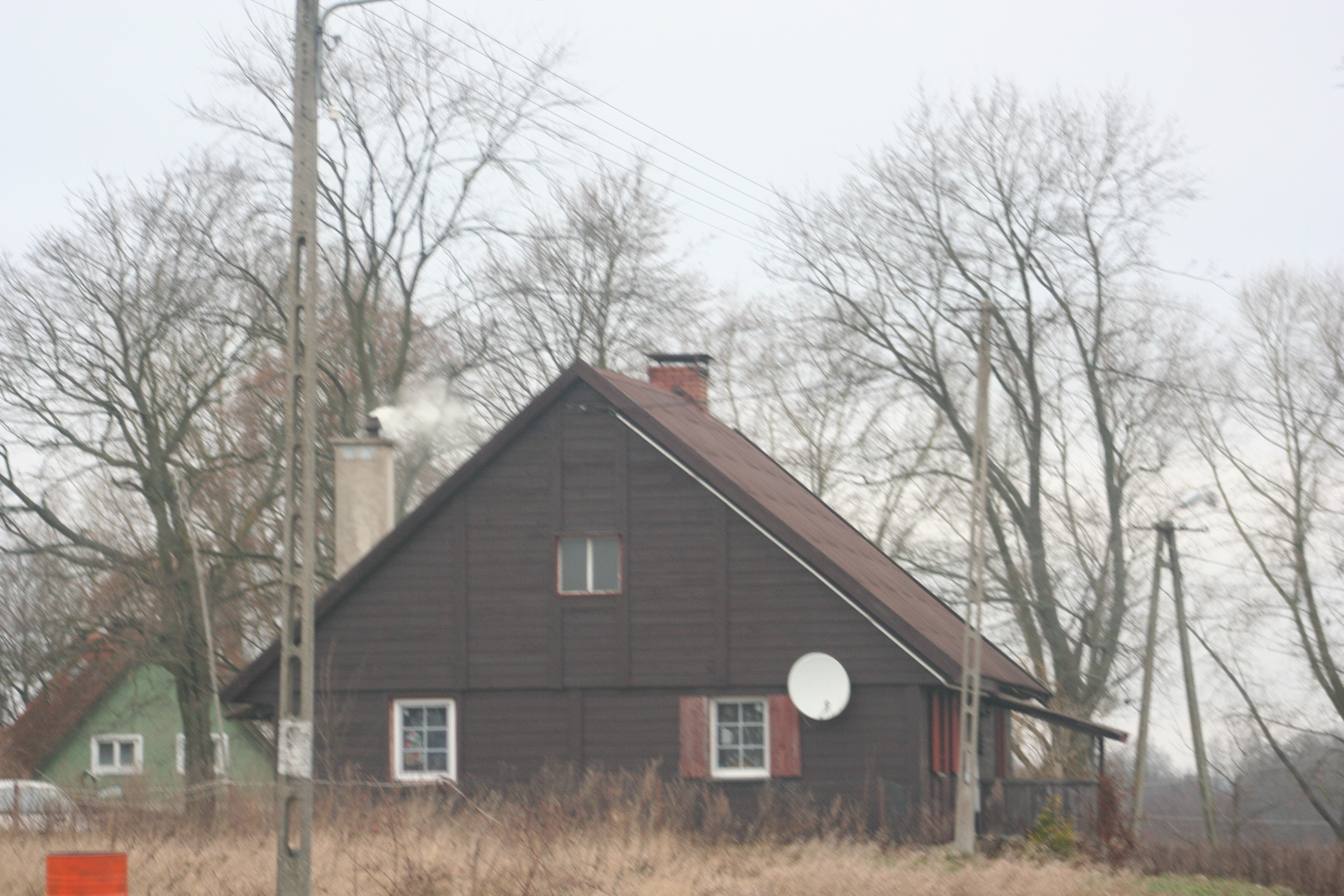 The oldest hous in Pustniki